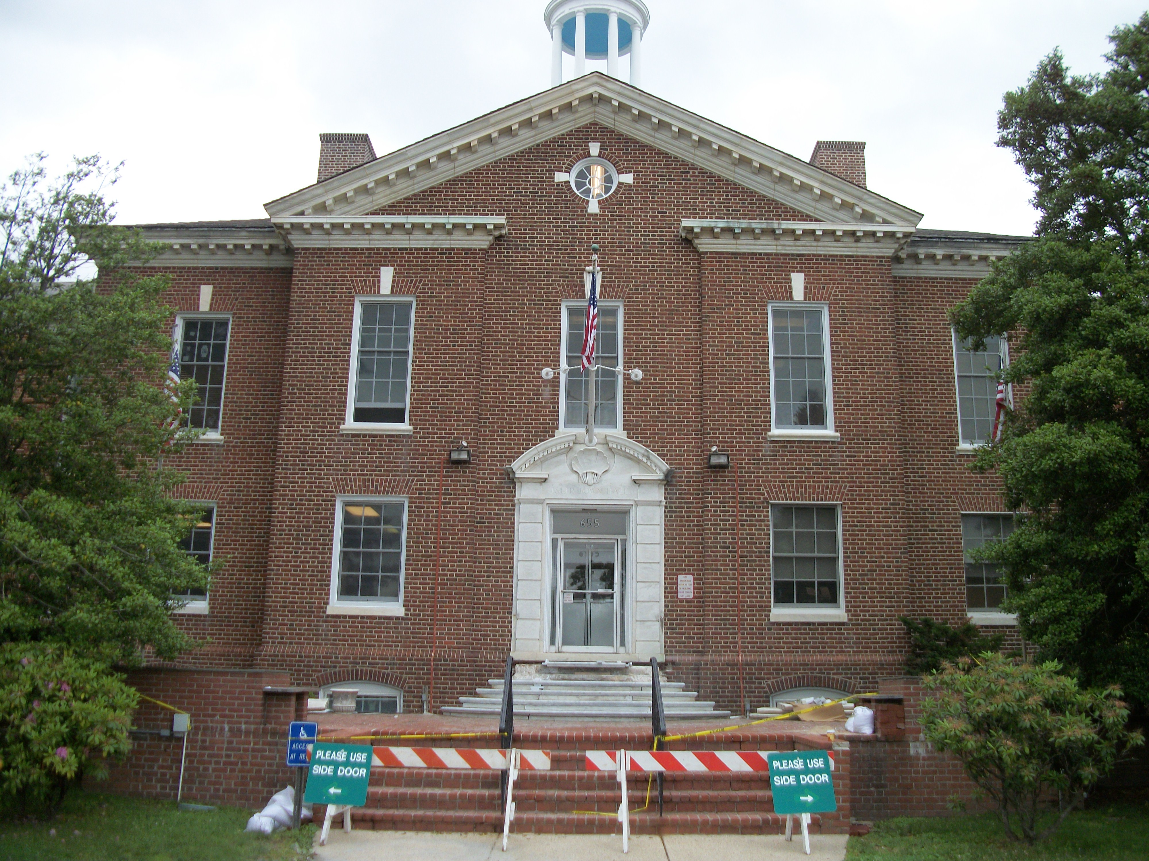 Town of Islip Town Hall on Main Street in the Census-Designated Place of Islip, New York. The staircase was clearly under reconstruction that day, probably to add ramps for the handicapped, or something like that.